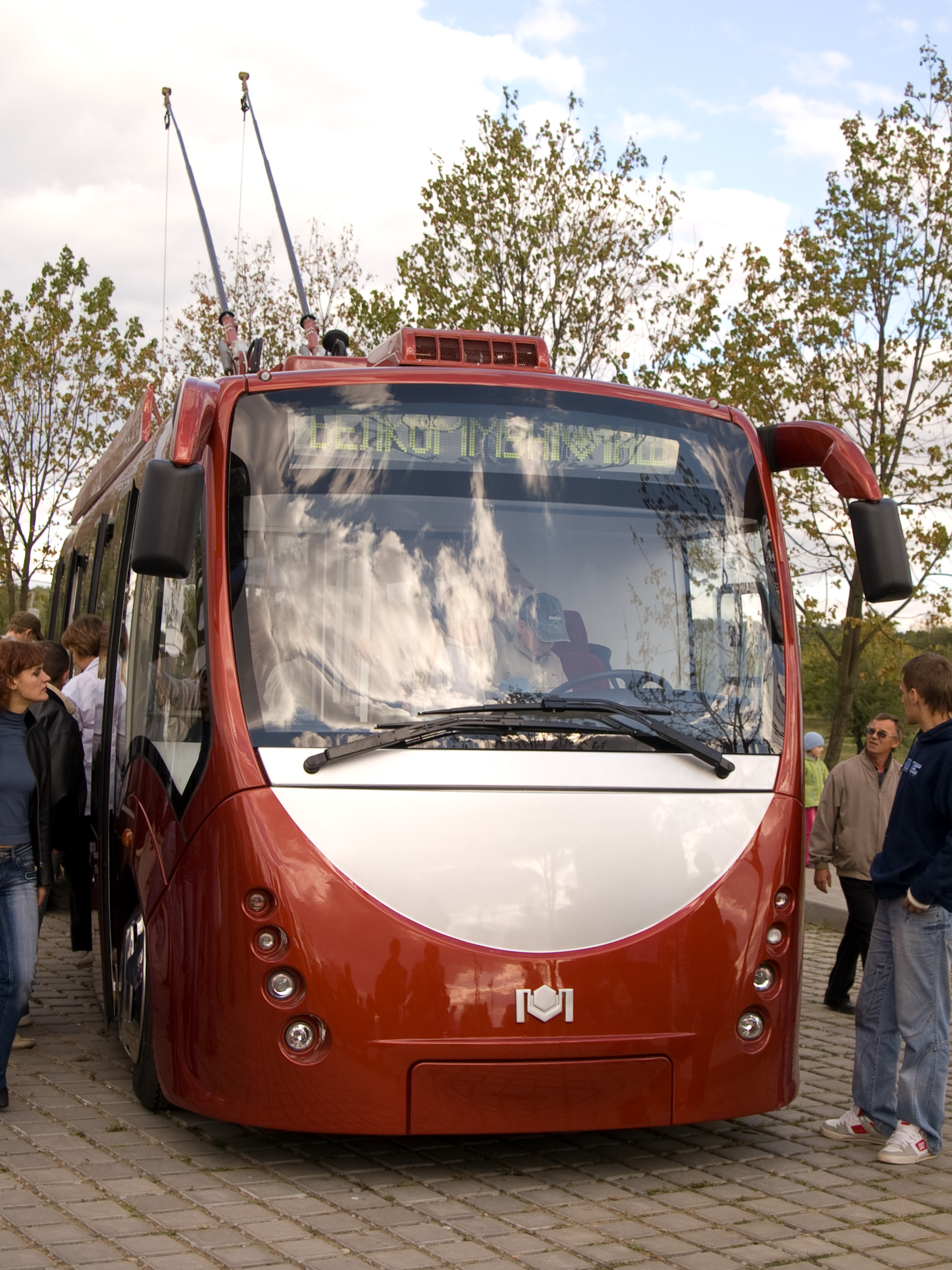 AKCM-321 trolleybus in Minsk